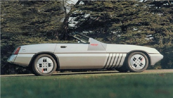 Vauxhall Equus. Who designed it and what was it based on?